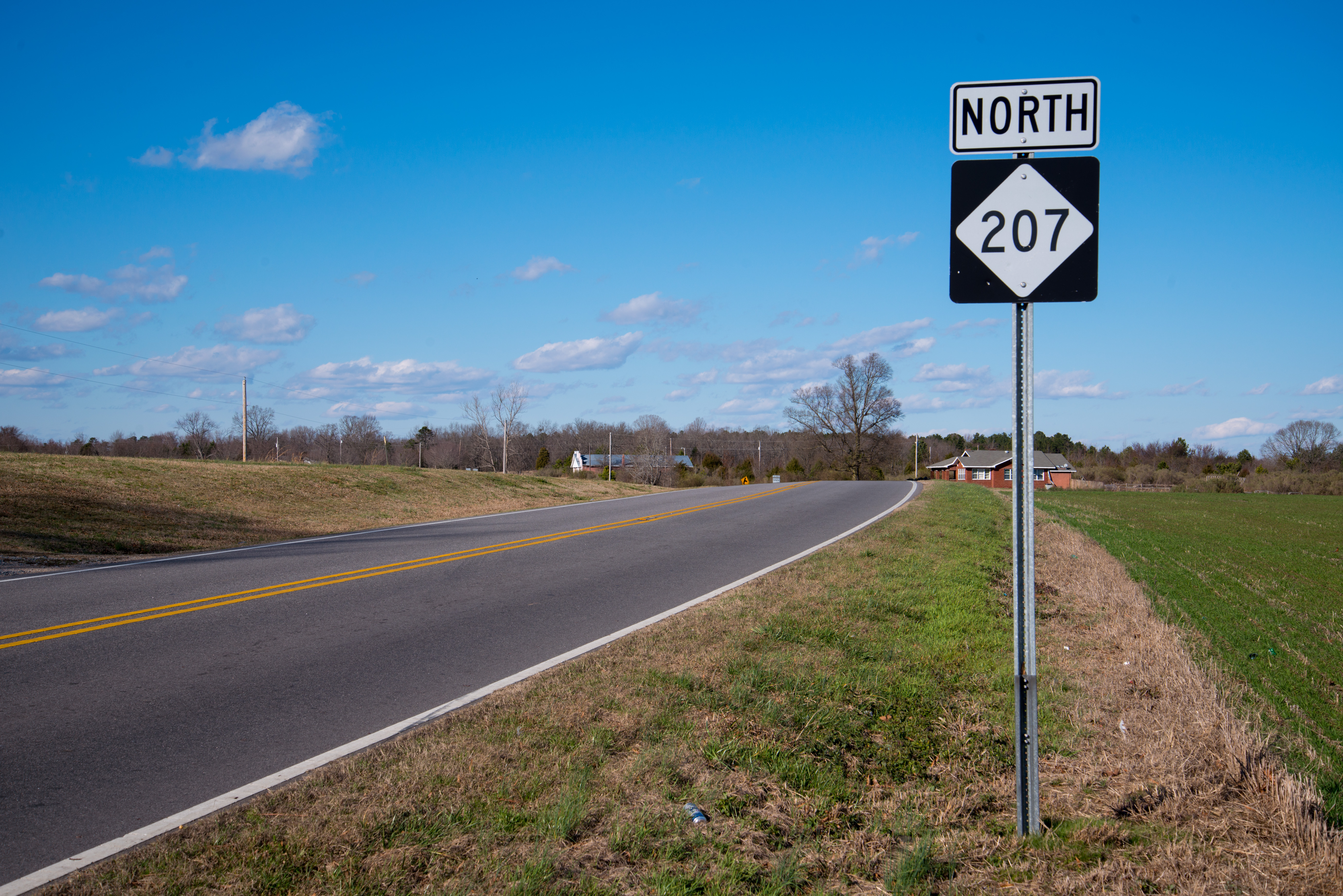 First sign northbound of NC 207, just after the North Carolina-South Carolina state line, near Trinity, North Carolina.